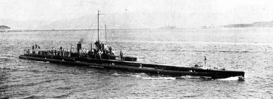 French submarine Monge, sunk December 28th, 1915